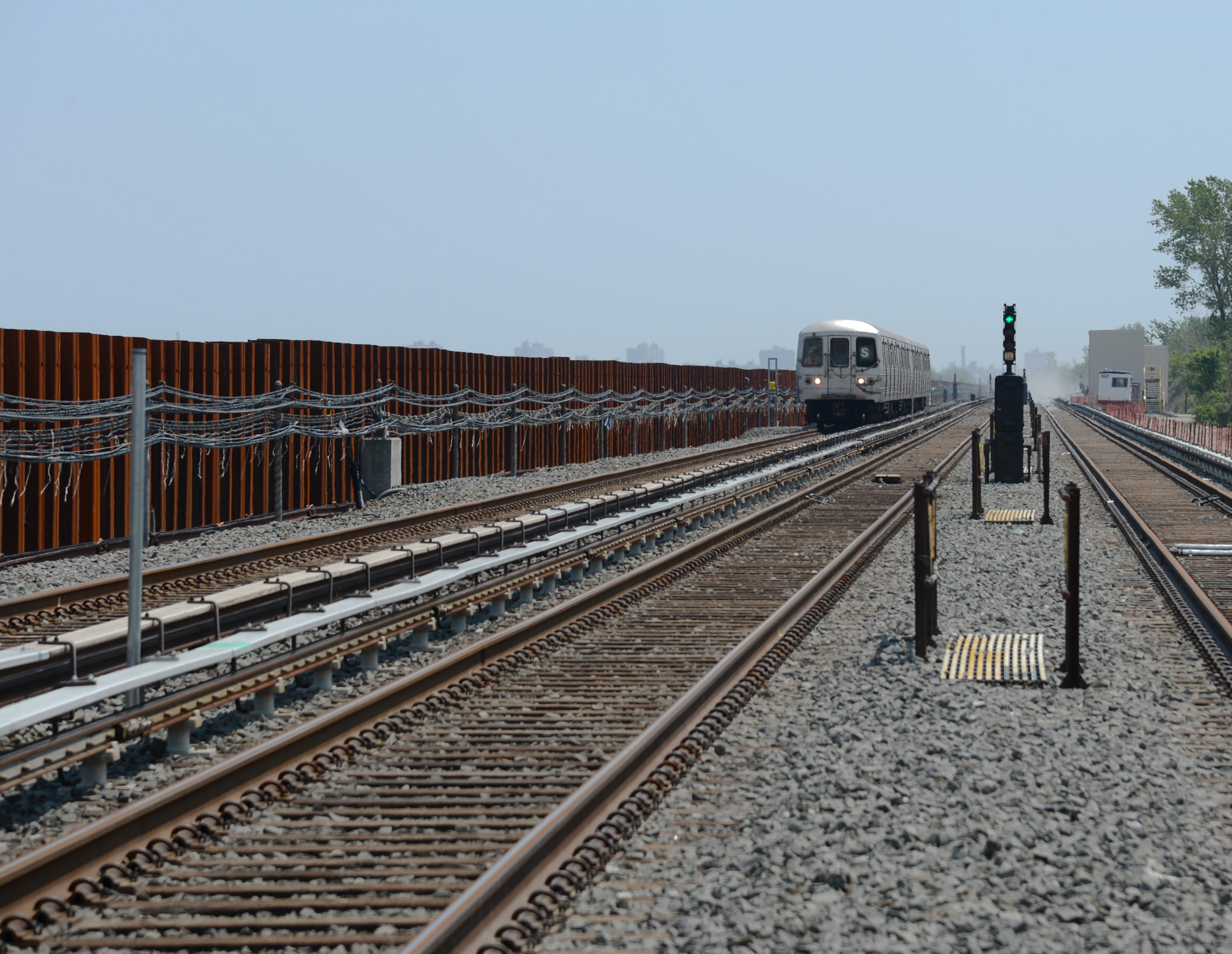 Normal passenger subway service resumed to and from the Rockaways on Thu., May 30, 2013. A Shuttle leaves Broad Channel. Photo: Marc A. Hermann / MTA New York City Transit